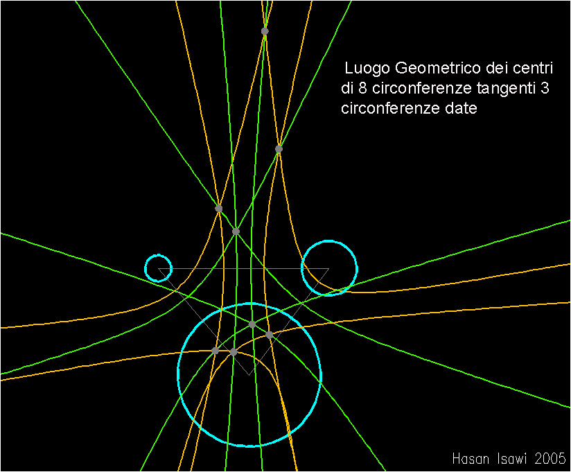 Given three distinct circles, I want to build eight circles tangent to them the procedure adopted is to determine the locus of the centers of all circles, tangent to each pair of Given circles. I found that Each pair of Given circles admits two hyperbola with the property of that locus Since we have three Given circles, the total number of hyperbole are six. The points common of each three branches of that hyperbola, are the centers of the eight circles that I looking for.